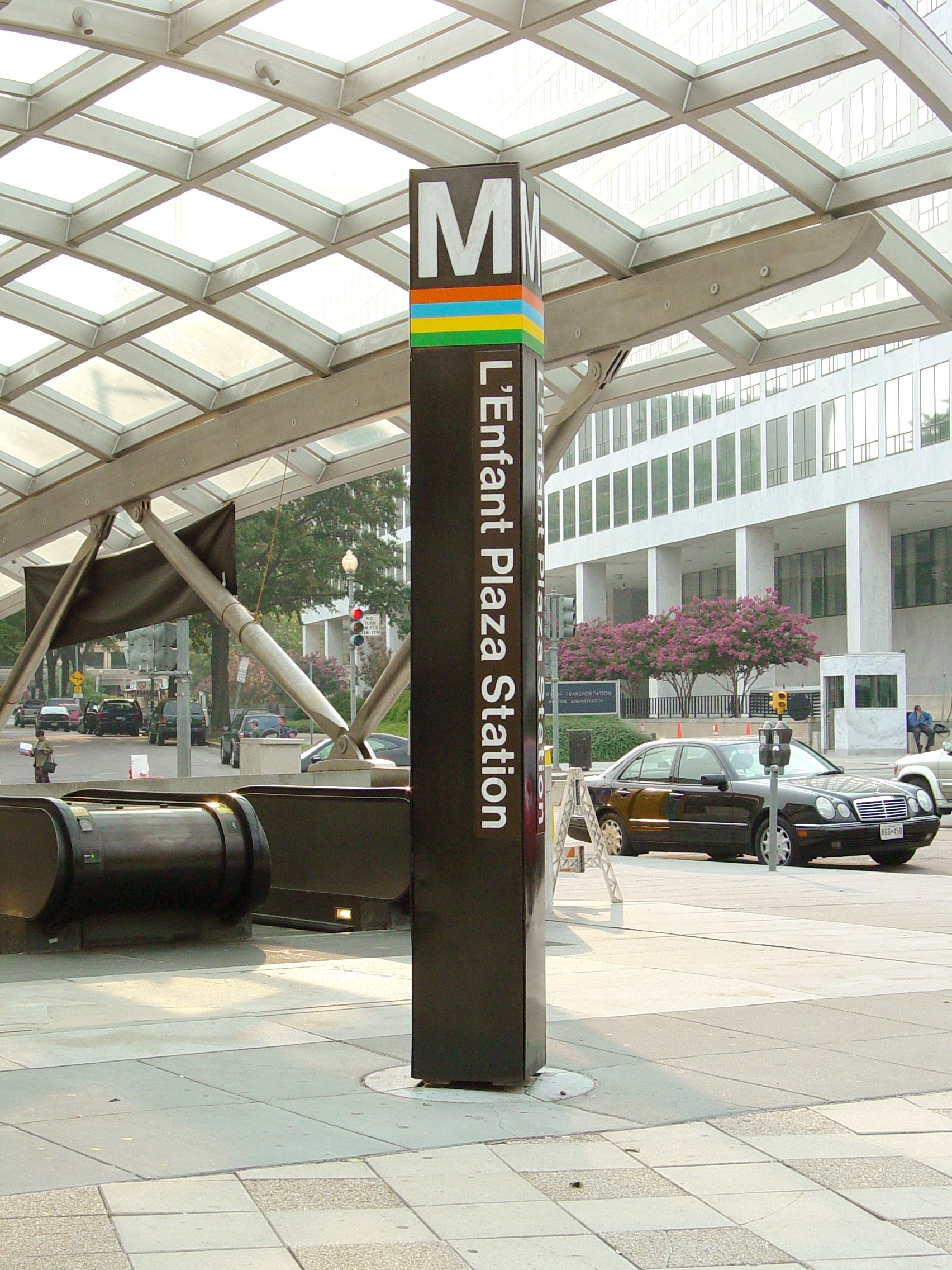 L'Enfant Plaza station entrance pylon in 2004